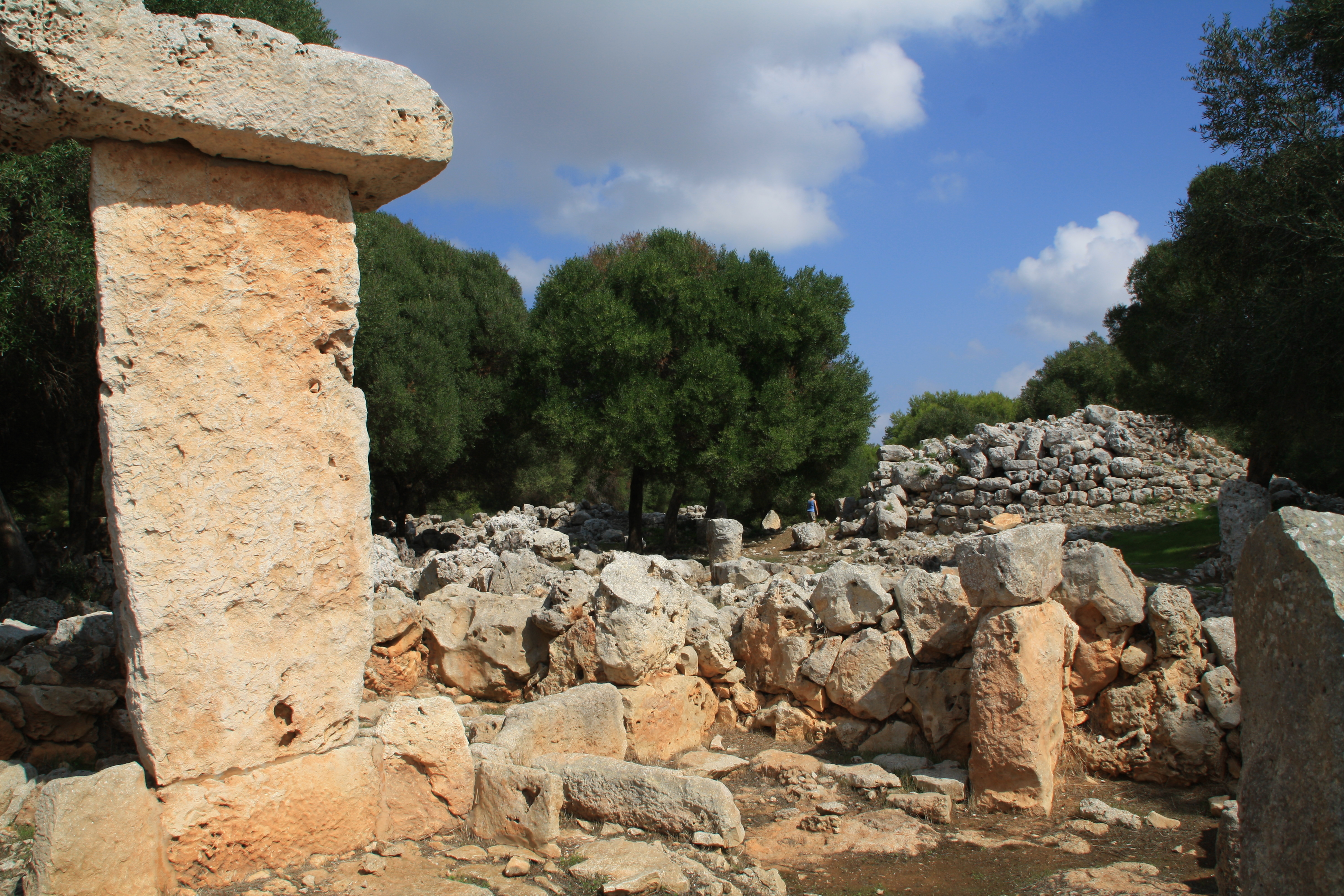 The talayotic settlement of Binissafullet, Minorca